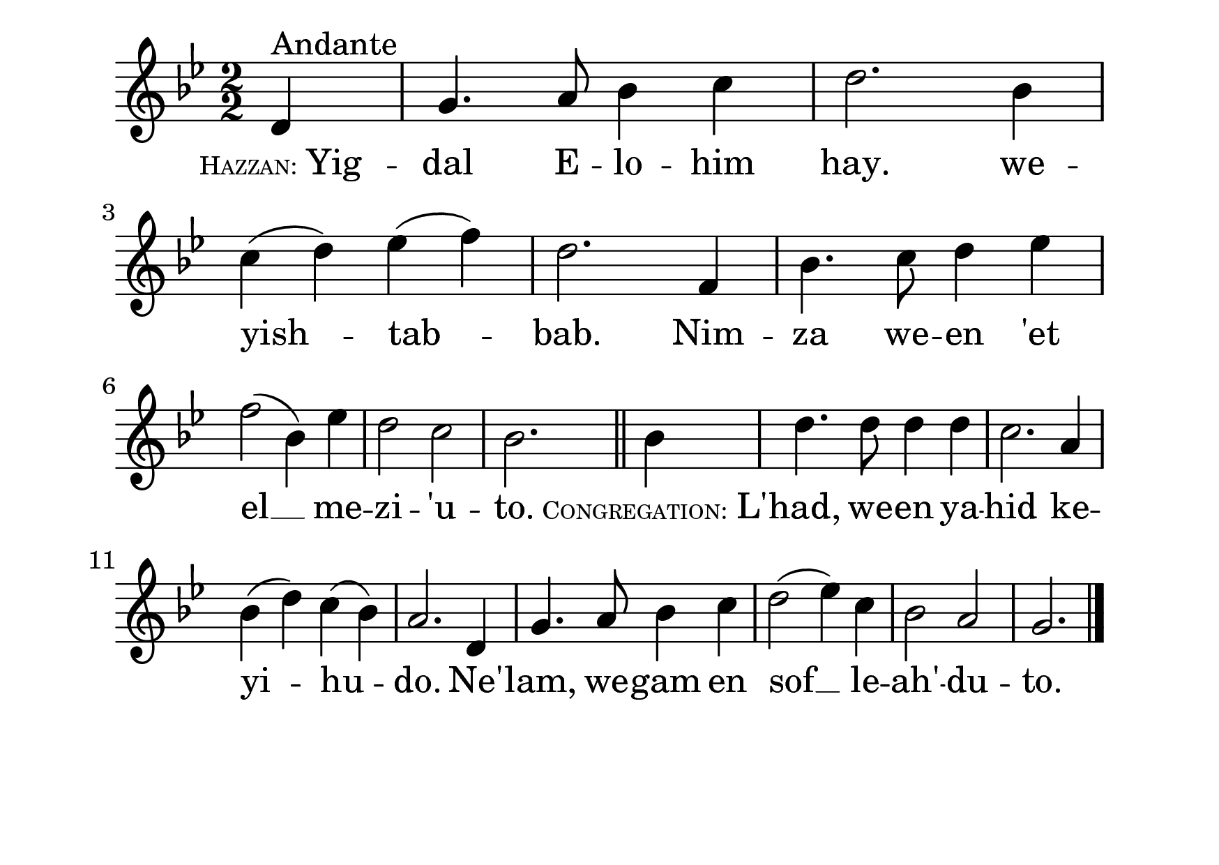 Melody of Yigdal hymn reset in Lilypond as a PNG from the JPEG uploaded by User:Smerus at Yigdalleoni.jpg